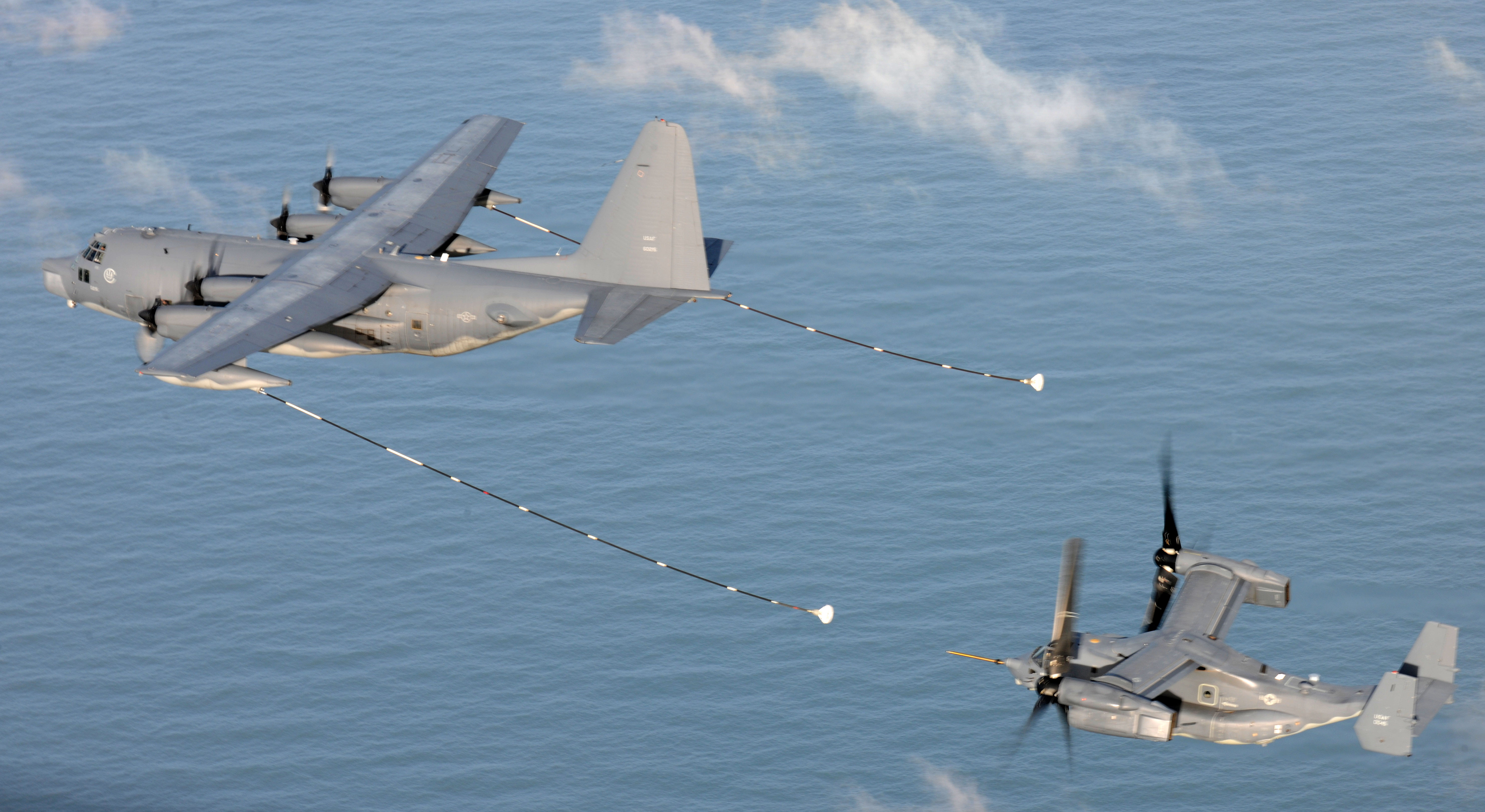 A U.S. Air Force 67th Special Operations Squadron Lockheed MC-130P Combat Shadow prepares to refuel a Boieng CV-22 Osprey on 24 January 2014, during the Shadow’s last flight in the U.K. Since the mid-1980s, the MC-130P had participated in special operations missions ranging from air refueling of the military’s vertical lift platforms; precision airdrop of personnel and equipment; and the execution of night, long-range, transportation and resupply of military forces across the globe. Its departure marked the final step of Special Operations Command Europe's transition from the Combat Shadow to the Lockheed MC-130J Commando II.